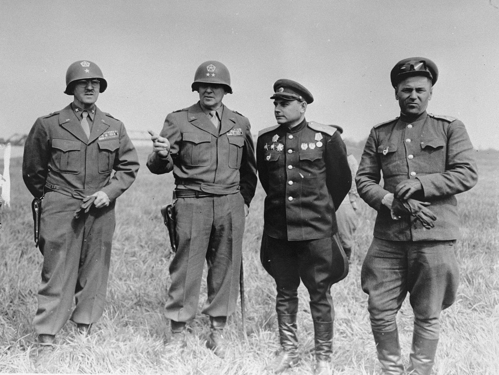 American and Soviet generals pose on the banks of the Elbe River near Torgau, Germany, where the two Allies linked up for the first time. Pictured from left to right are Brig. Gen. Charles G. Helmick (Commander of V Corps Artillery), Maj. Gen. Clarence R. Huebner (CG V Corps, First U.S. Army), Lt. Gen. Gleb Baklanov (Commanding General Soviet 34th Rifle Corps), and Maj. Gen. Vladimir Rusakov (Commanding General Soviet 58th Guards Rifle Division).